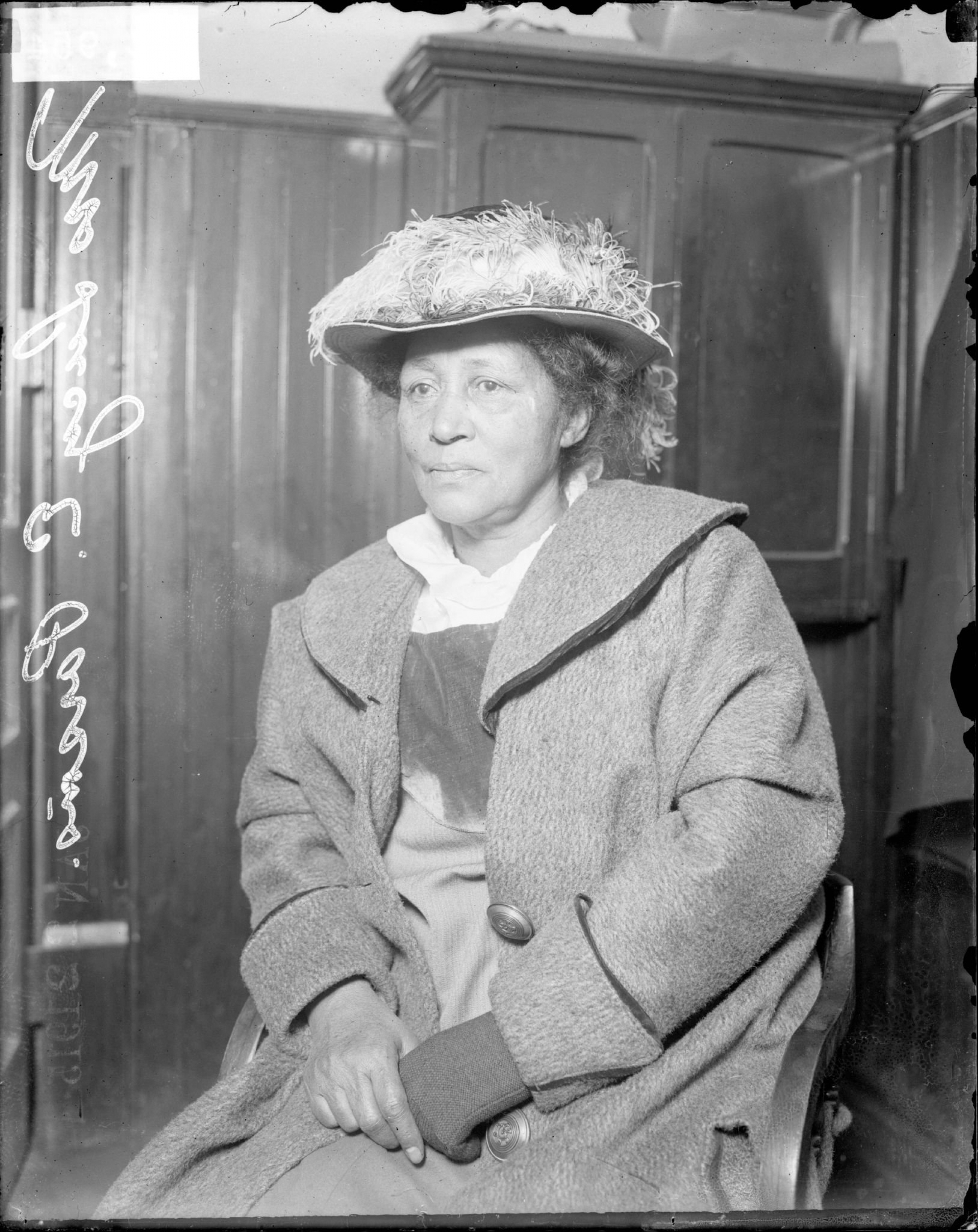 Three-quarter length portrait of Mrs. Lucy E. Parsons, arrested for rioting during an unemployment protest at Hull House in Chicago, Illinois. Mrs. Parsons is also the widow of Albert Parsons, one of the men hanged for complicity in the Haymarket affair. Courtesy of the Chicago Historical Society.